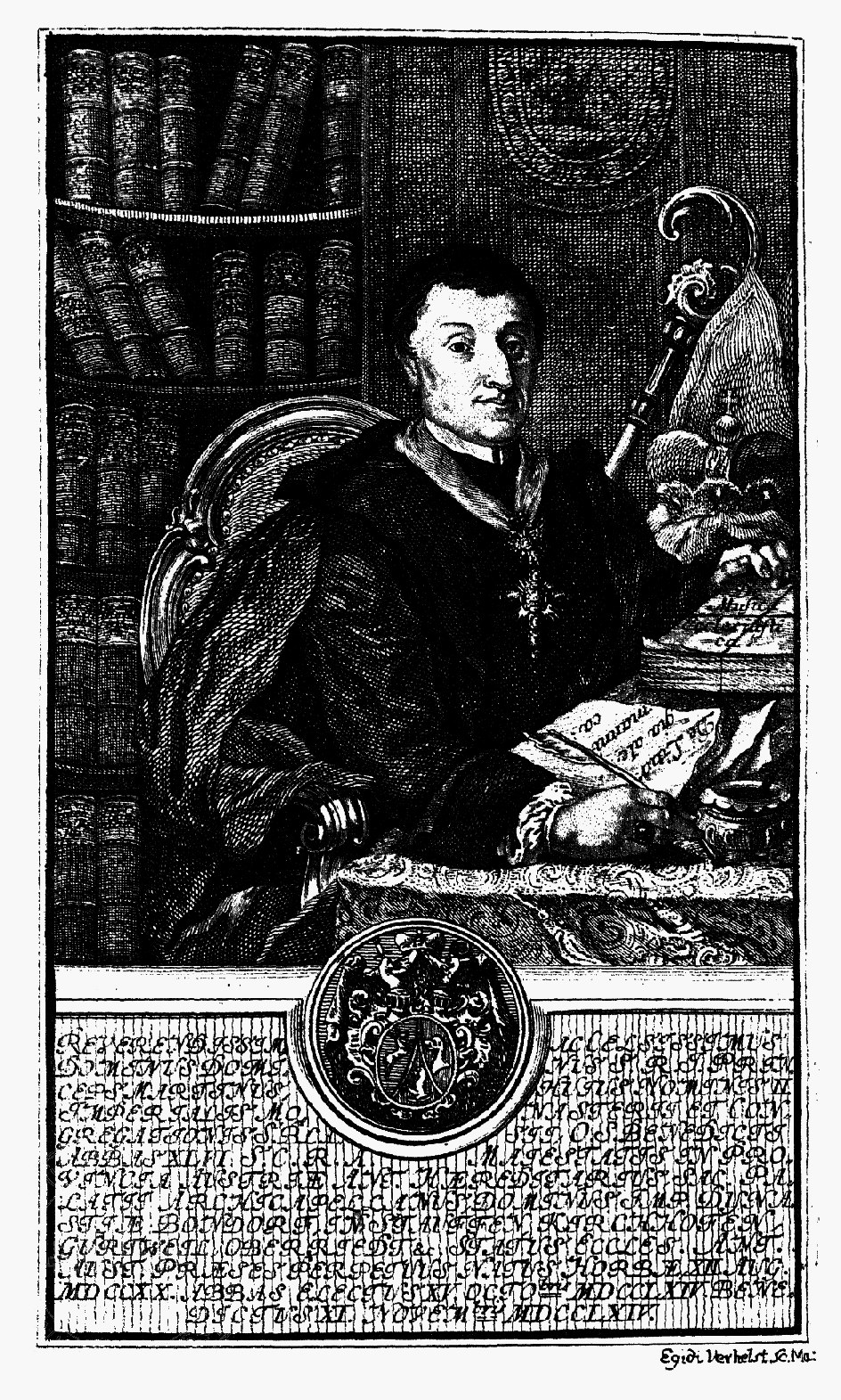 Martin Gerbert, abbot of St. Blasien